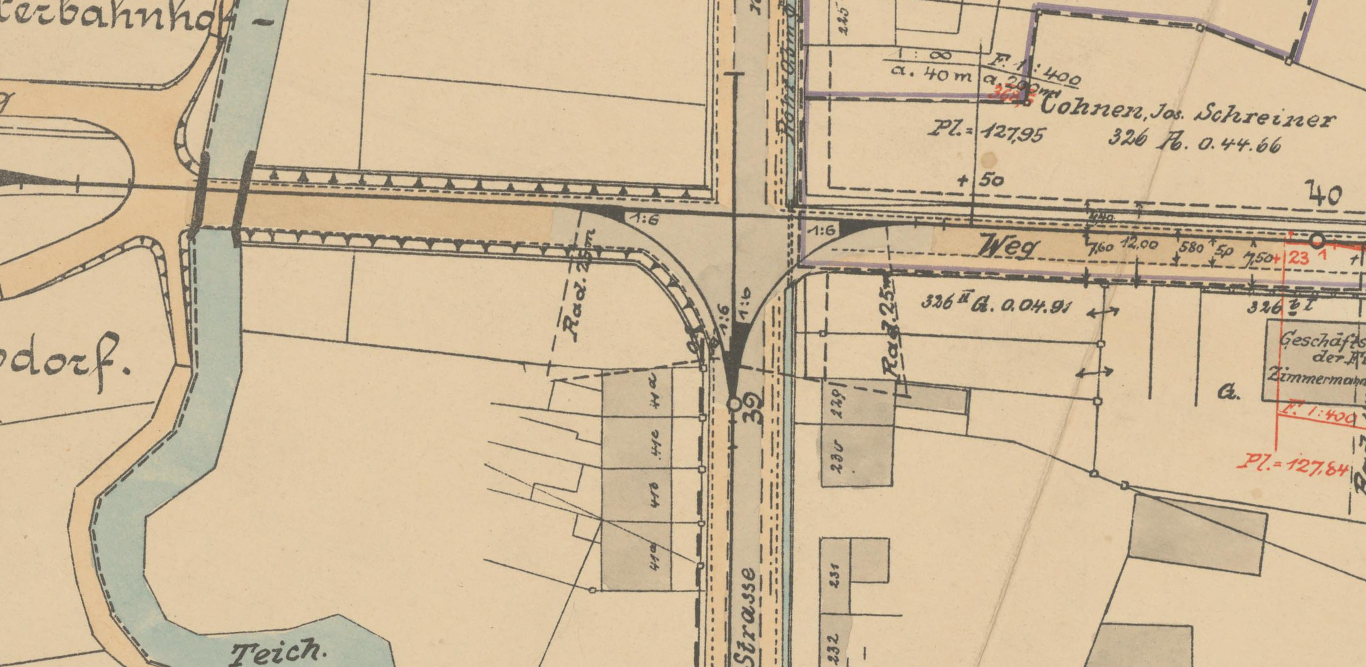 Plan of Rölsdorf Dreieck junction 1909 of Dürener Kreisbahn